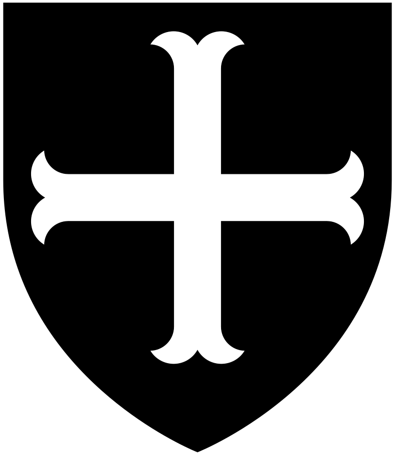 Arms of Upton of Puslinch in the parish of Yealmpton and of Lupton in the parish of Brixham, Devon: Sable, a cross flory argent (Vivian, Lt.Col. J.L., (Ed.) The Visitations of the County of Devon: Comprising the Heralds' Visitations of 1531, 1564 & 1620, Exeter, 1895, p.743)